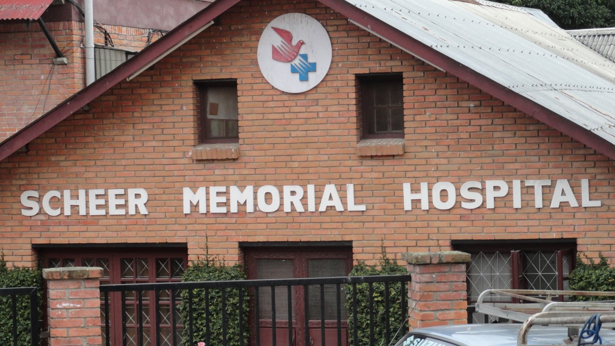 A photograph of Scheer Memorial Hospital, in Banepa, Nepal, taken in 2013.